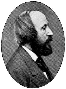 Image scanned from the book "Svenskt Porträttgalleri XX - Arkitekter, Bildhuggare, Målare m.fl. " ("Swedish Portrait Gallery XX - Architects, Sculptors, Painters, ") published 1901